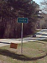 Picture of Svea Sign